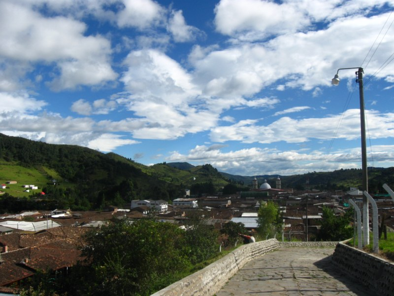 silvia people